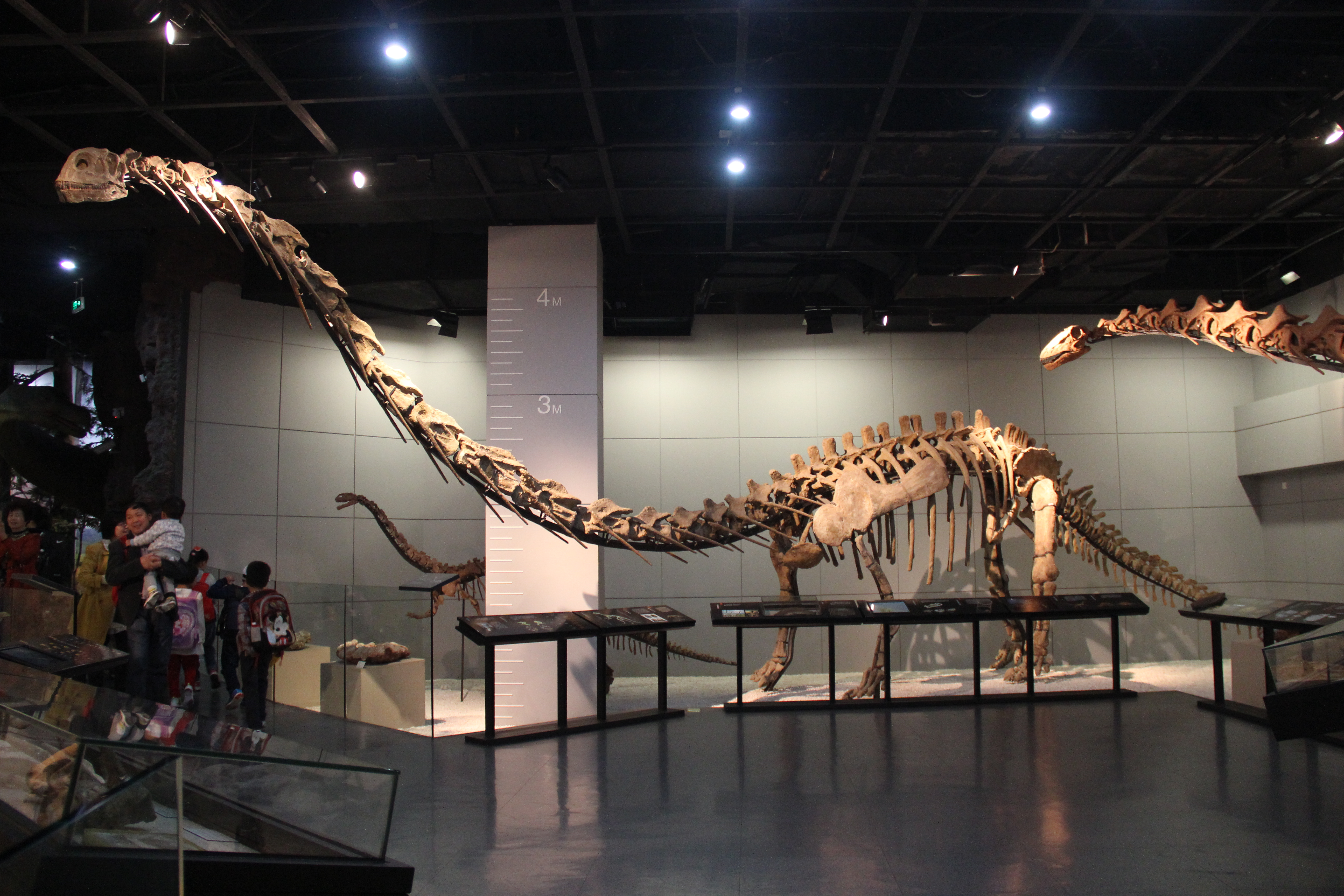 Zhejiang Natural History Museum, Hangzhou, China. Complete indexed photo collection at .